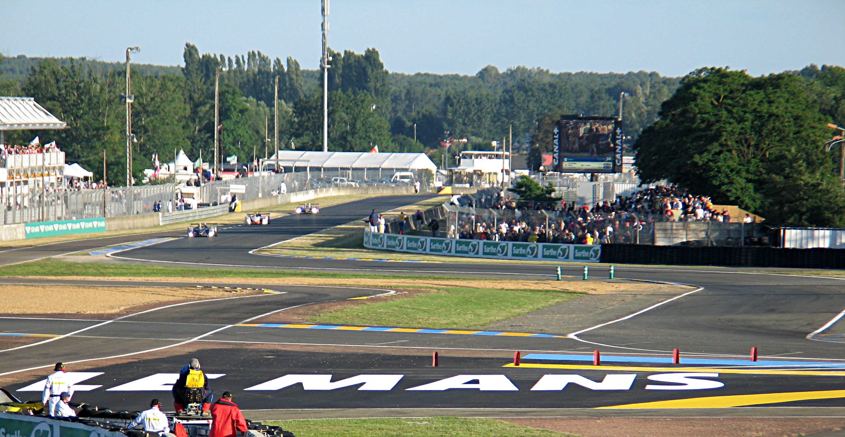 Circuit de la Sarthe, Ford Chicanes, 24 Hours of Le Mans 2007